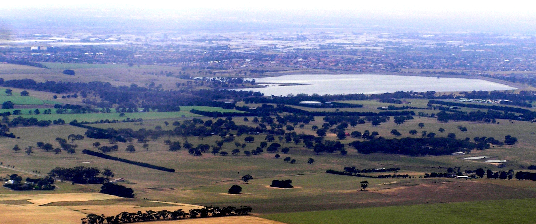 aerial photo of Greenvale Reservoir over farm land.